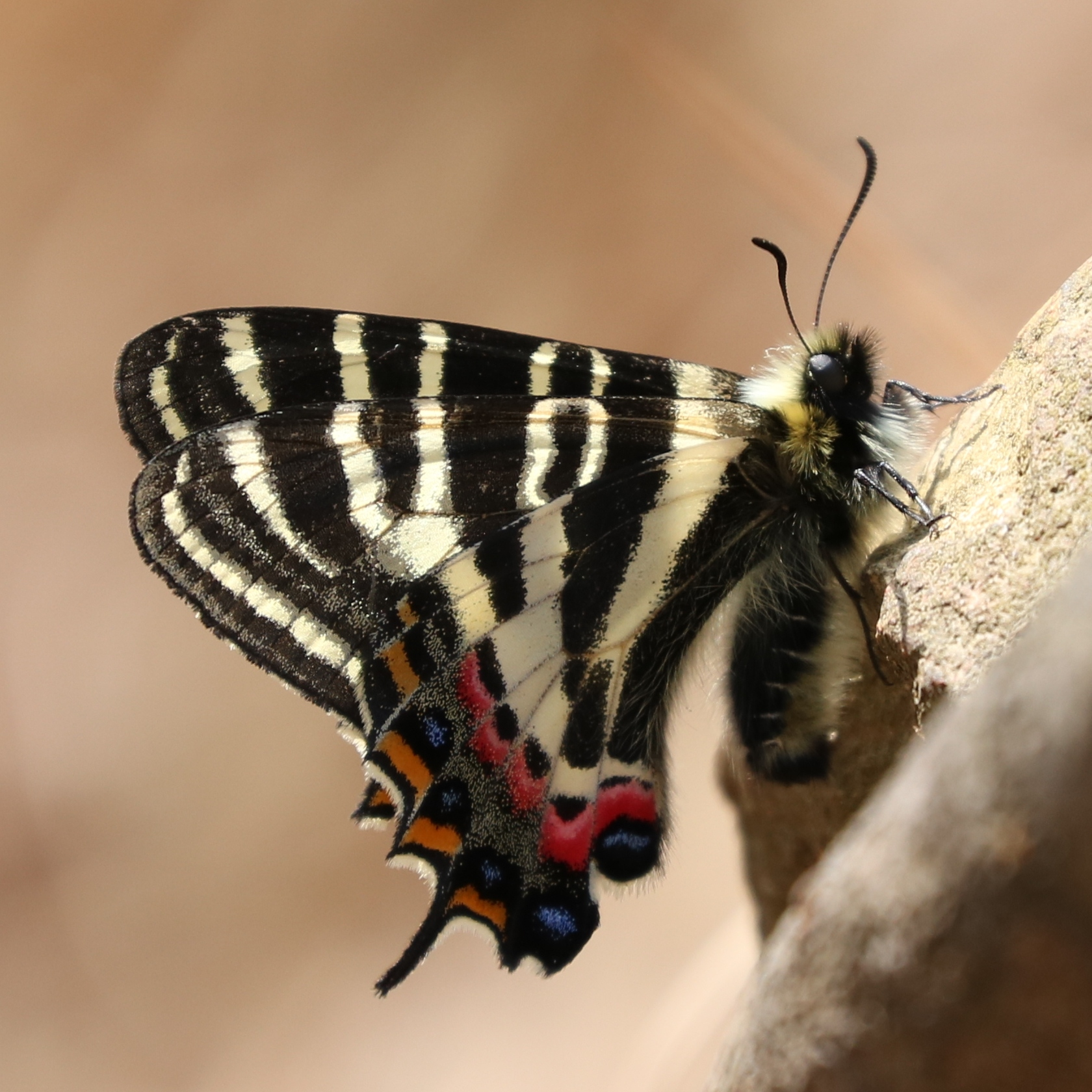 Luehdorfia japonica in Mount Miroku, Kasugai, Aichi Prefecture, Japan.